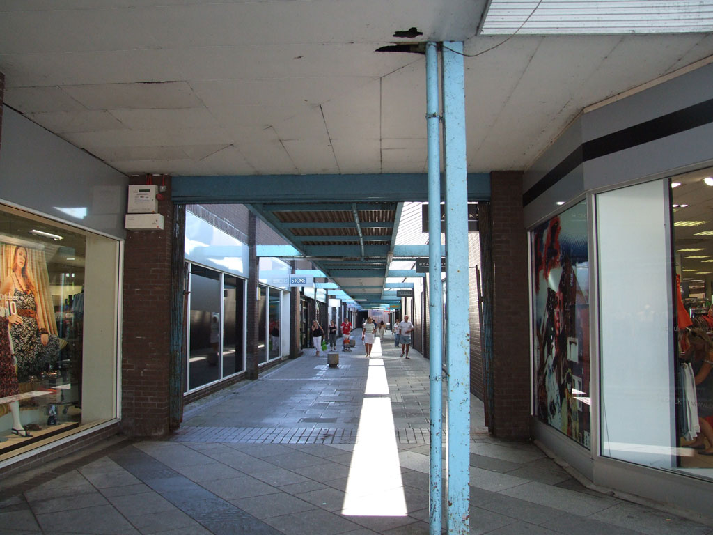 Cheapside Bridgend 2009. Before the demolision and reconstruction.